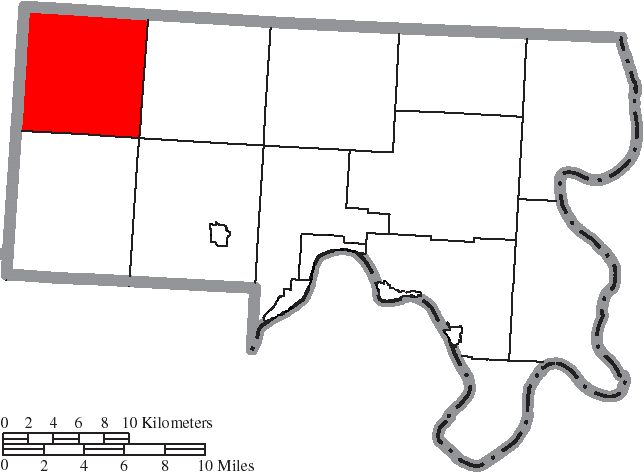 Map of the municipal and township boundaries of Meigs County, Ohio, United States, as of the 2000 census, with the location of Columbia Township highlighted. Township borders are shown only in unincorporated areas in order to differentiate incorporated and unincorporated areas more clearly.